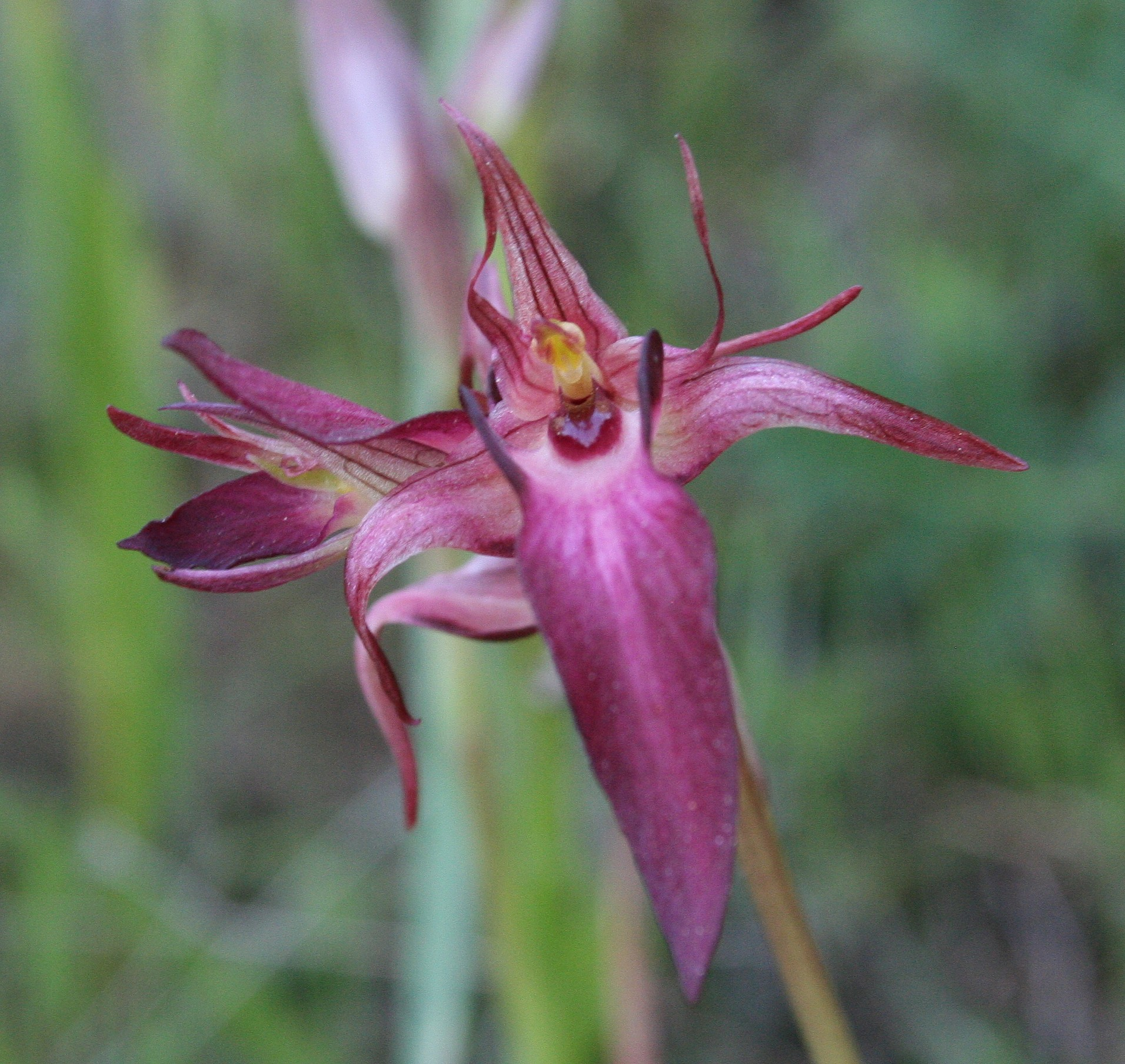 Serapias strictiflora var. distenta, Algarve Portugal